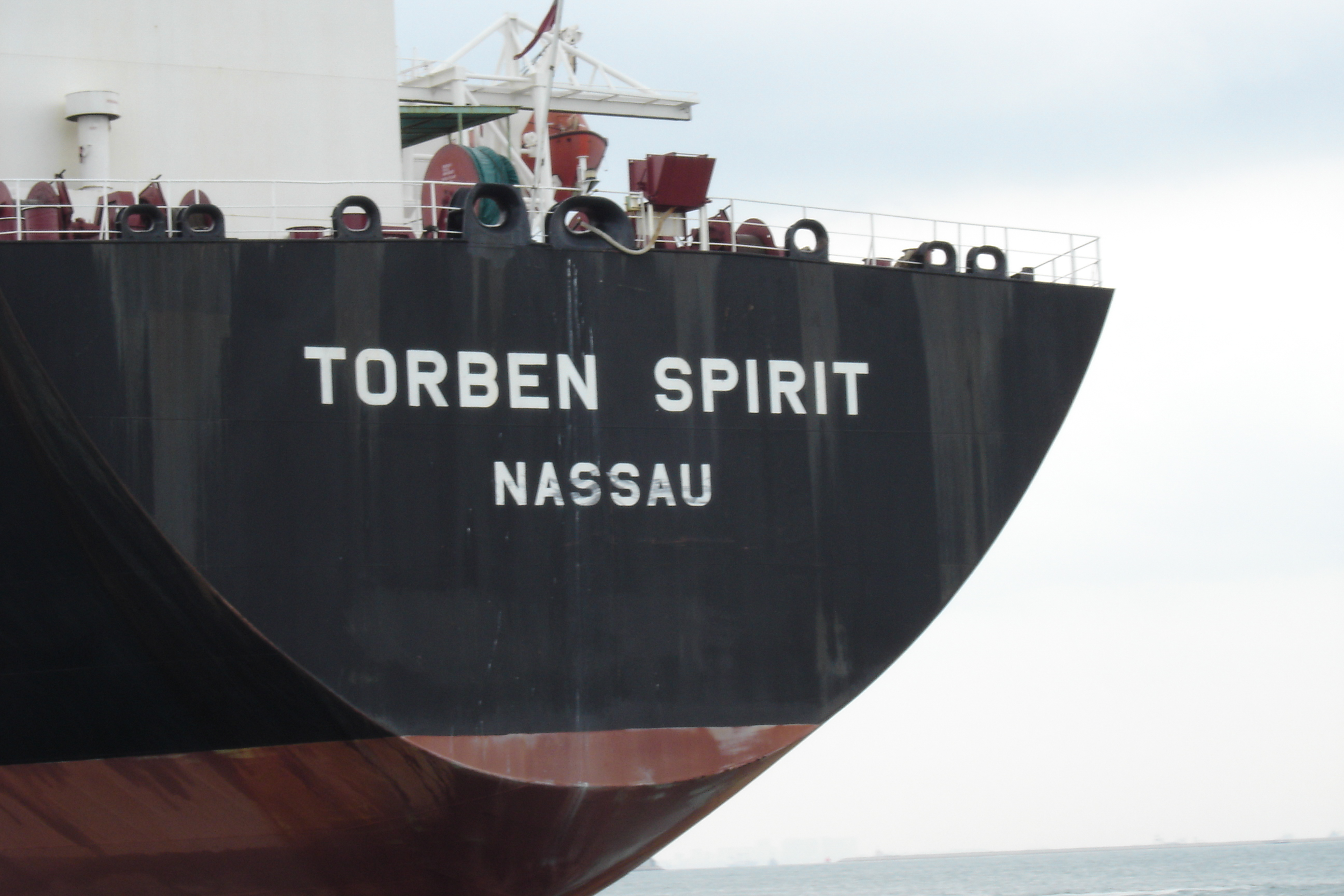 The Aframax petroleum tanker MT Torben Spirit, registered at the port of Nassau, The Bahamas, showing its name and home port on its stern. It was photographed in the outer anchorage at Singapore from a launch by Eng/Cdt Paul Meffin, a crew member joining the ship. GENERAL SPECIFICATIONS Call Sign: C6MF7 Hull: DH Built: 1994 Yard: Onomichi Class: LR IMO no.: 9041746 DIMENSIONS LOA Metres: 244.8 Breadth Metres: 41.2 KTM Metres: 50.35 BCM Metres: 122.36